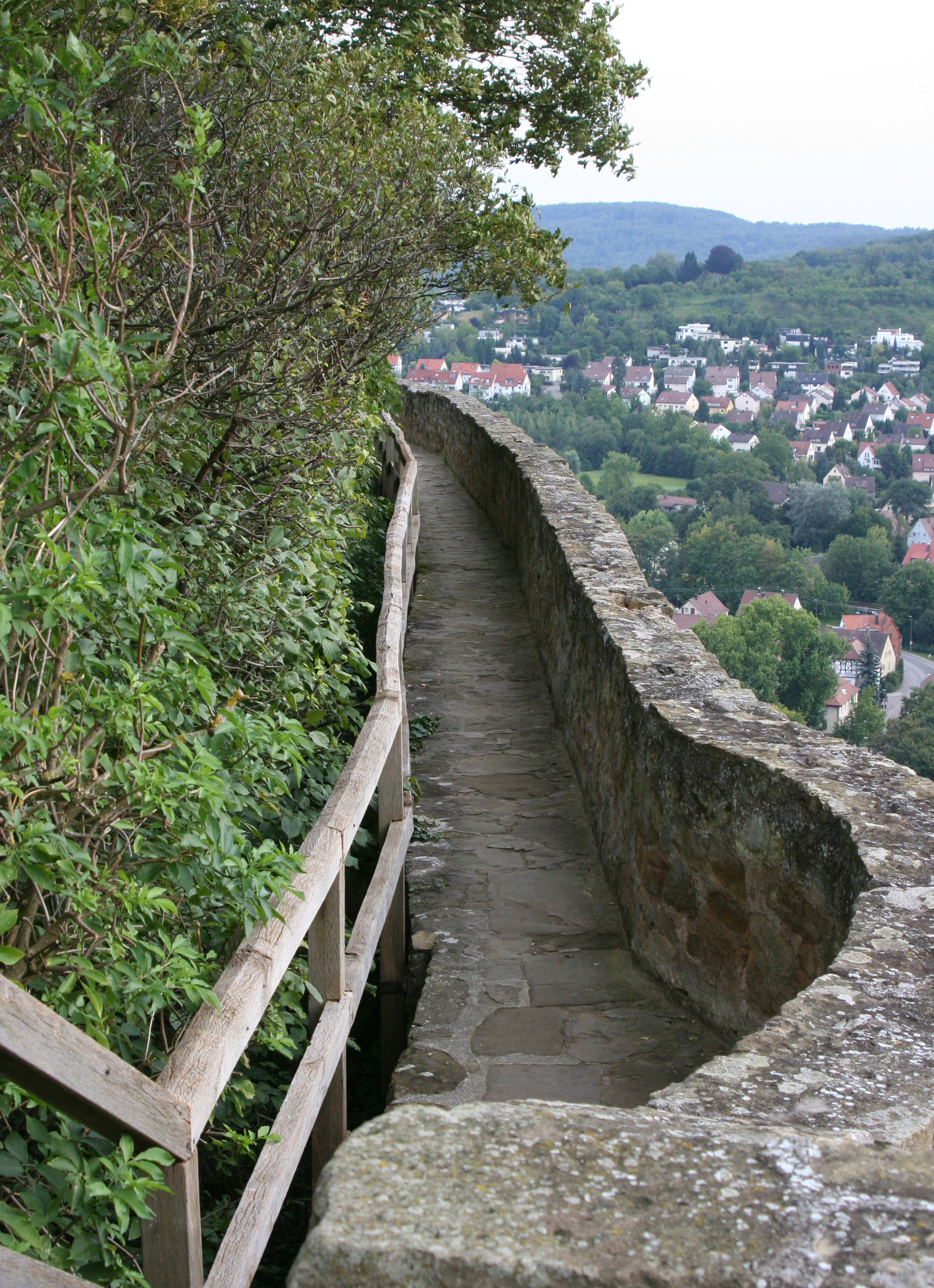 Burgruine Weibertreu. Battlement